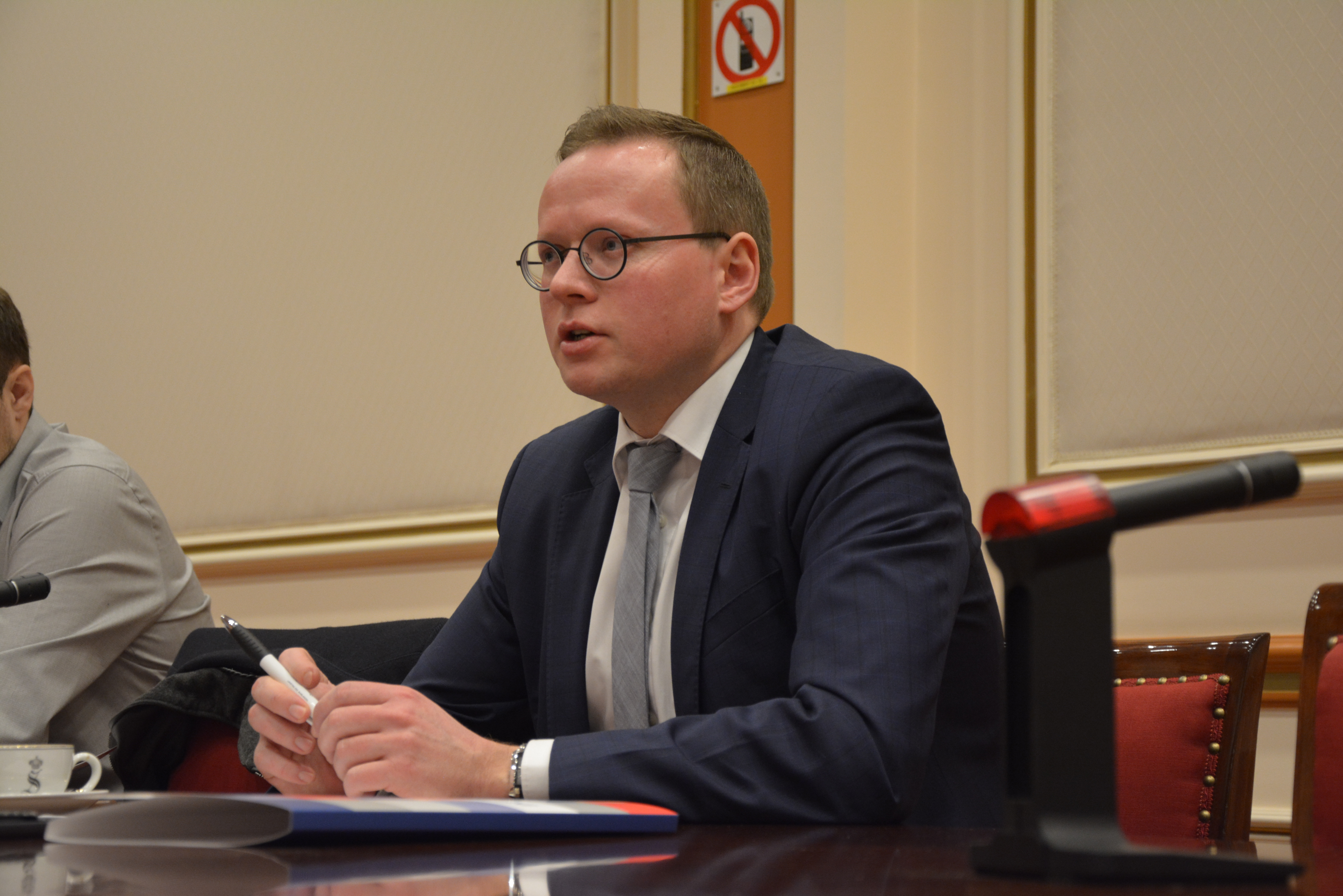 The belgian Senator Alexander Miesen